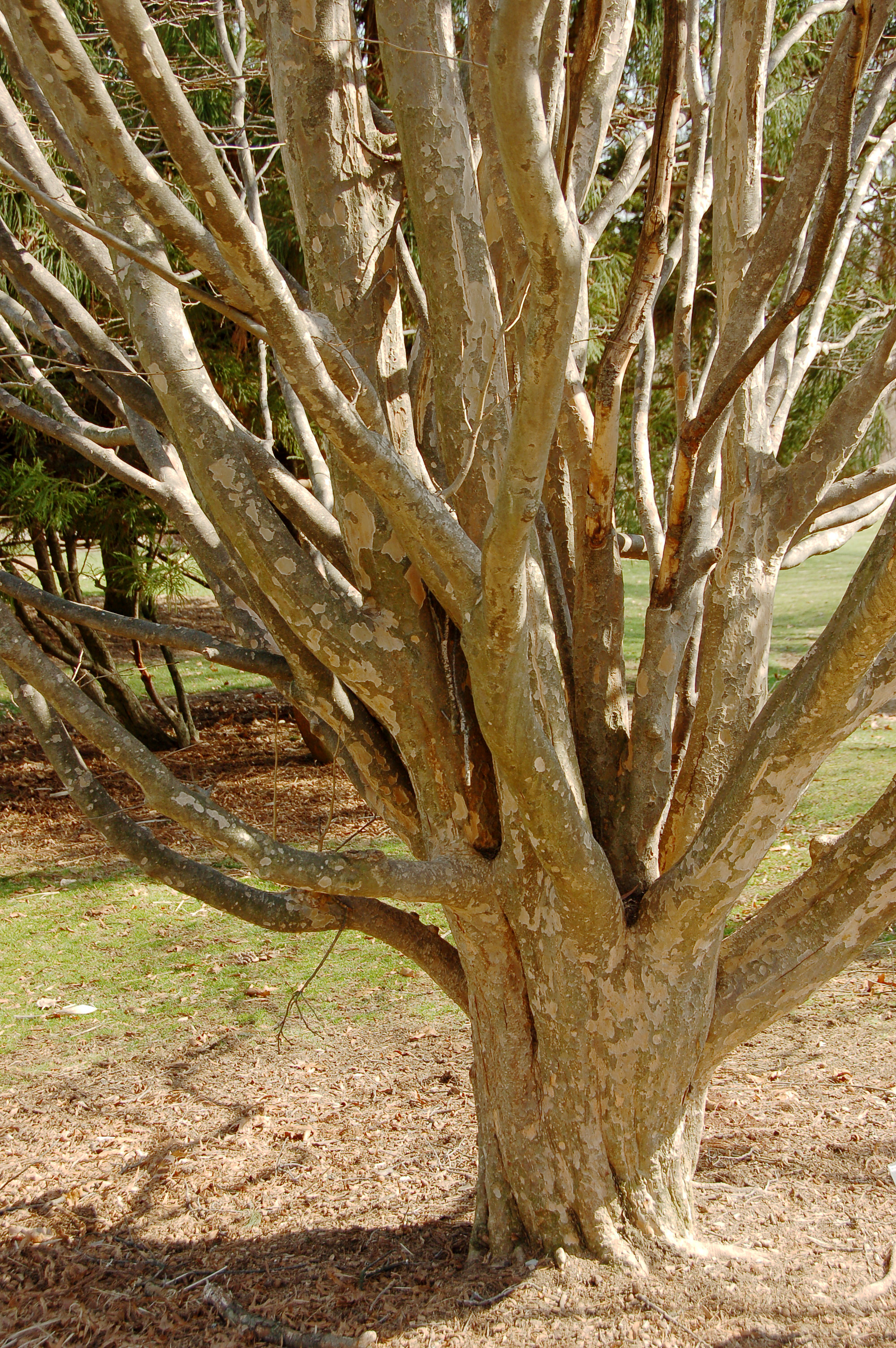 Photograph of a Persian Ironwooden (Parrotia persica en ). Photo taken at the Hershey Gardens in Hershey, Pennsylvania where it was identified.